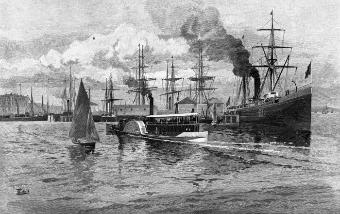 Mail steamer Mariposa leaving Auckland harbour, Auckland in 1880s. A paddle steamer, possibly a ferry to/from Devonport, crossing in the foreground. Extended information on origin webpage reads: Schell, Frederic B, d. 1905 / Mail steamer leaving Auckland [Sydney; Picturesque Atlas Publishing Co. Ltd., 1886] / Reference number: A-109-008 1 b&w art print(s). Wood engraving, 7 x 11 in. / Drawings and Prints Collection / Scope and contents: A paddle steamer, possibly the Devonport ferry arriving in the harbour, while a large liner to the right (the Mariposa) is drawing out from the wharf, with smoke pouring from its funnel and is probably the mail steamer referred to in the title. The Auckland Harbour Board buildings can be seen to the far left. / Notes: Same as B-037-008 but B-037-008 is foxed / Extended title: Published in: Picturesque Atlas of Australasia 1886. v. 3. op. p.577 / Other copies available File PrintIn Drawings & Prints under Artist/Title (DFP-006261) / Key terms Coverage dates: 1886, Names: Mariposa (Ship. 1883-1917), Auckland Harbour Board, Schell, Frederic B, d 1905, Picturesque Atlas of Australasia (Publication)